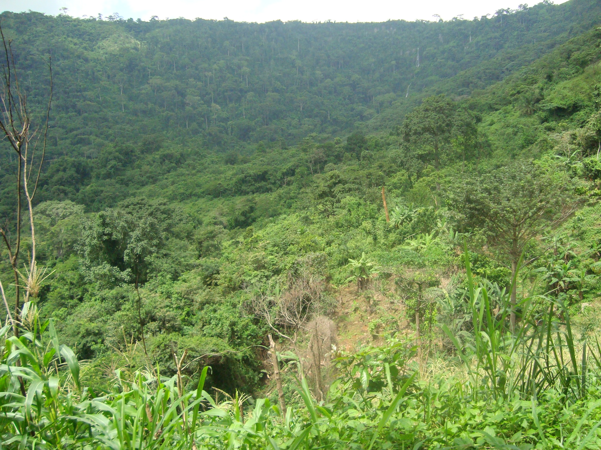 Krokosua Hills Forest Reserve a virgin forest in Western Region